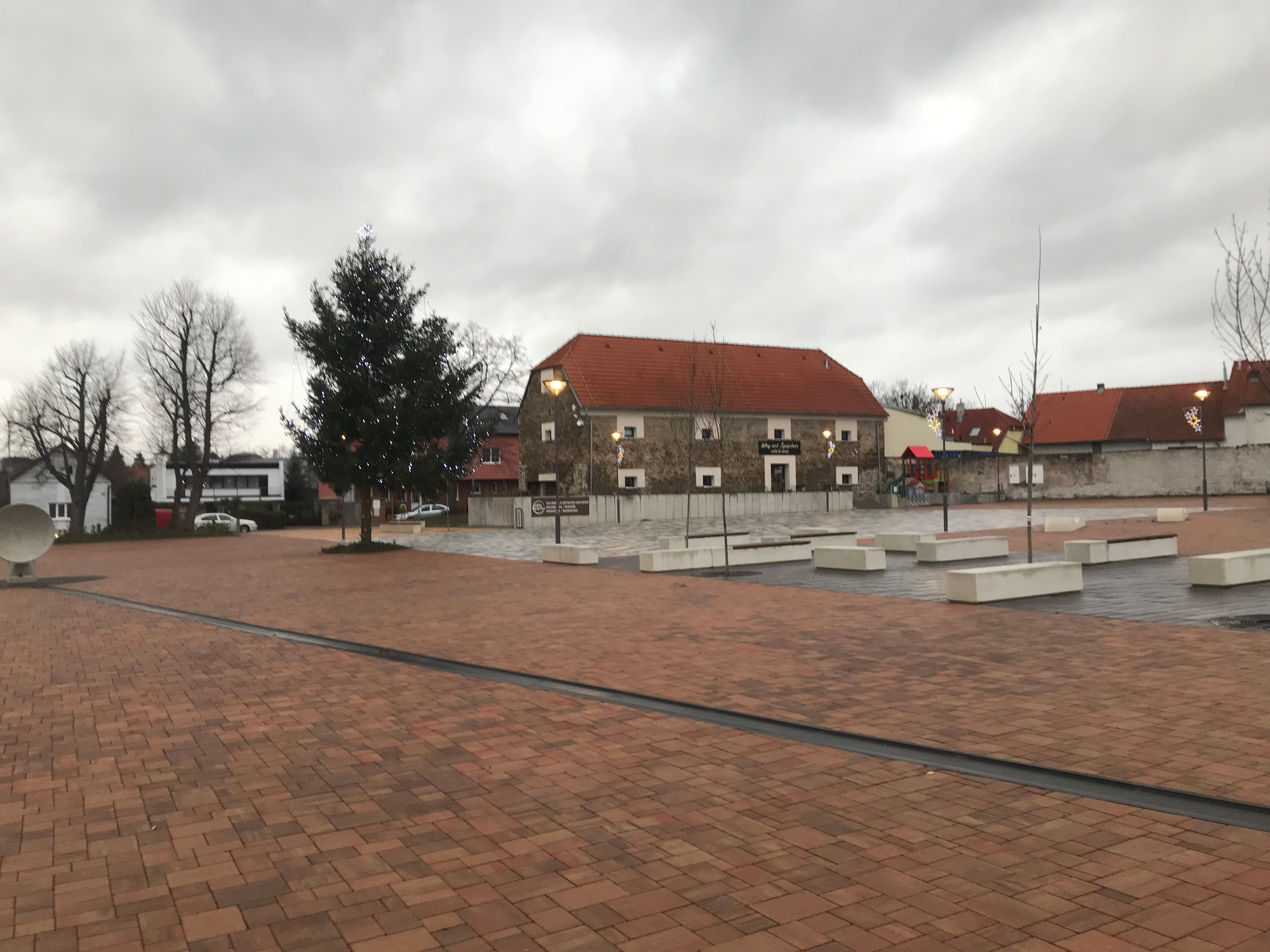 Náměstí Šeberov "Šeberov Square", built in 2018, Prague